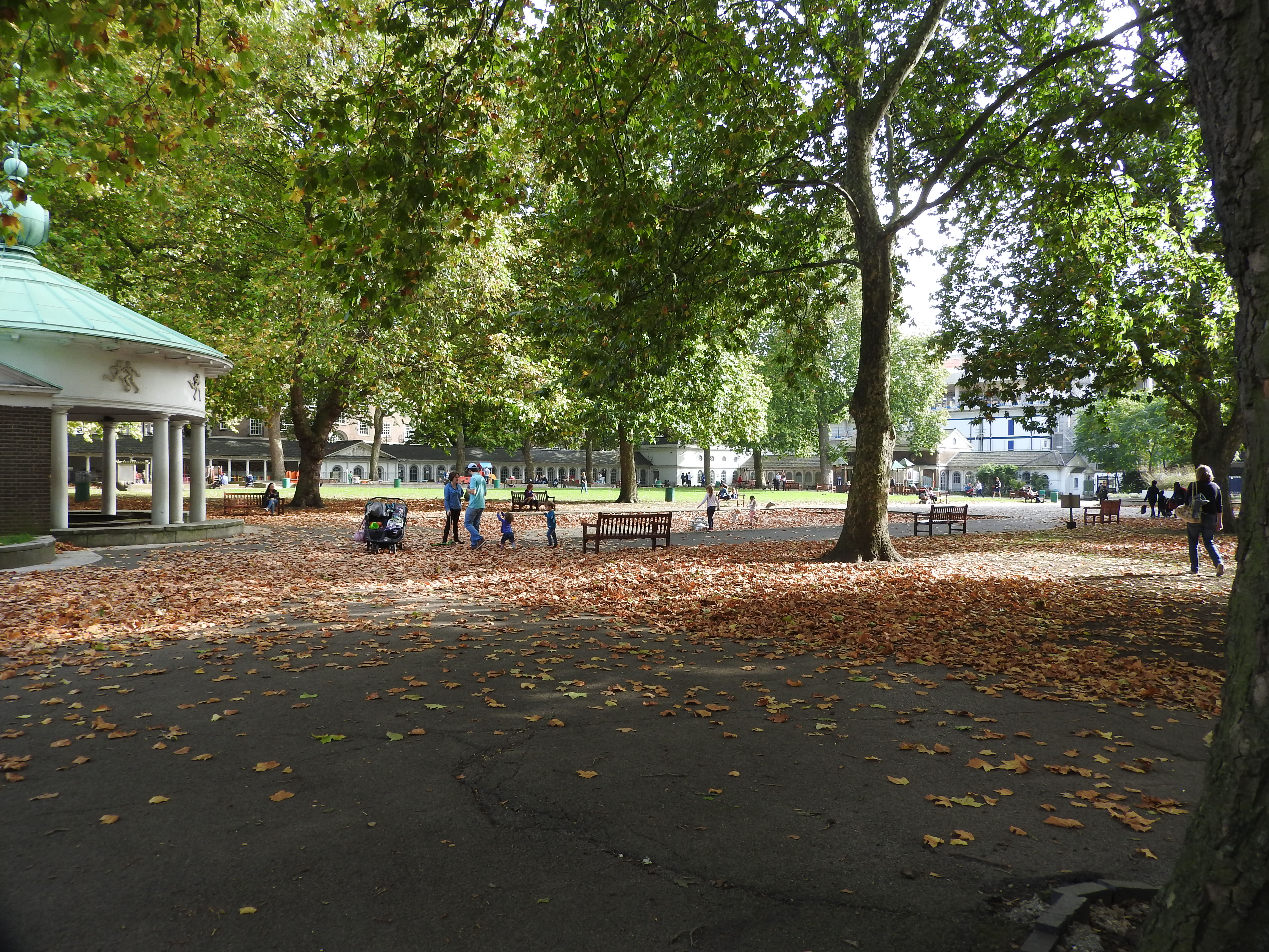 The site of the Foundling Hospital established in 1739 by Captain Thomas Coram were offered for sale as building land in 1926 when owing to changing social conditions the old Hospital was sold and demolished. Keeping the collonade, local people turned the land into London’s first public children’s playground.